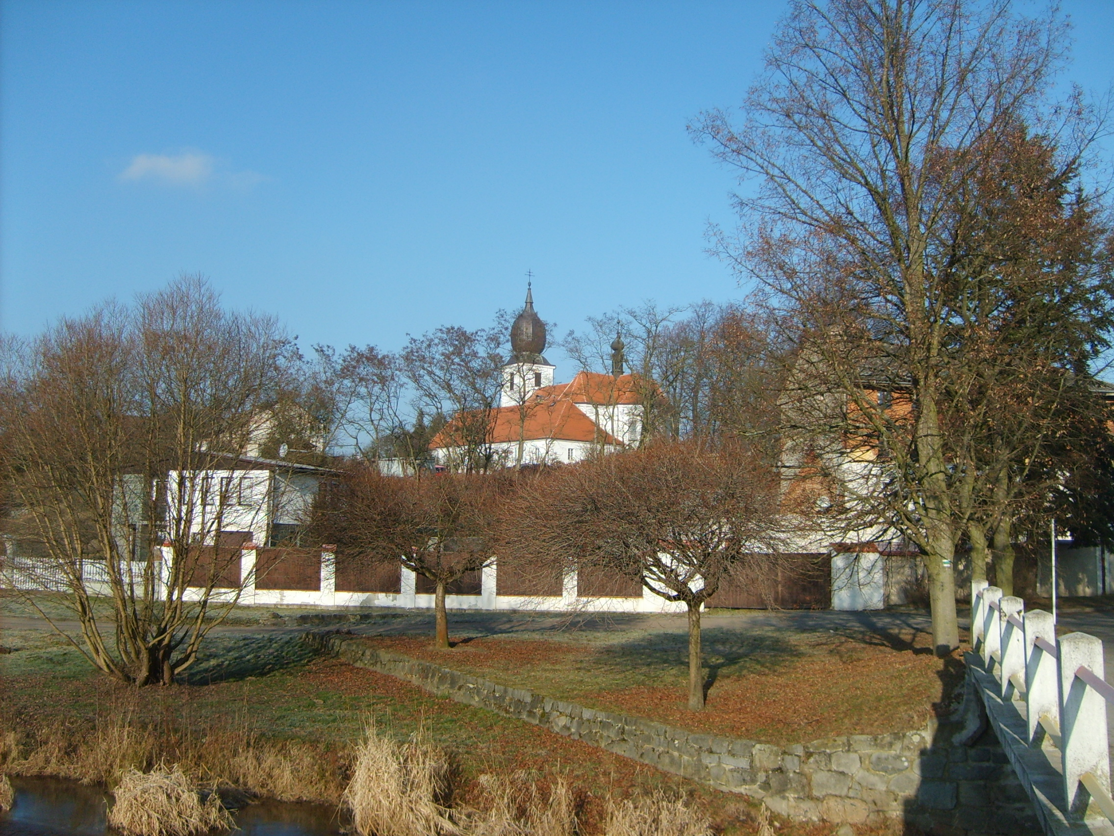 Church of Exaltation of Holy Rood in Starý Rožmitál - town part of Rožmitál pod Třemšínem, Příbram District, CZ